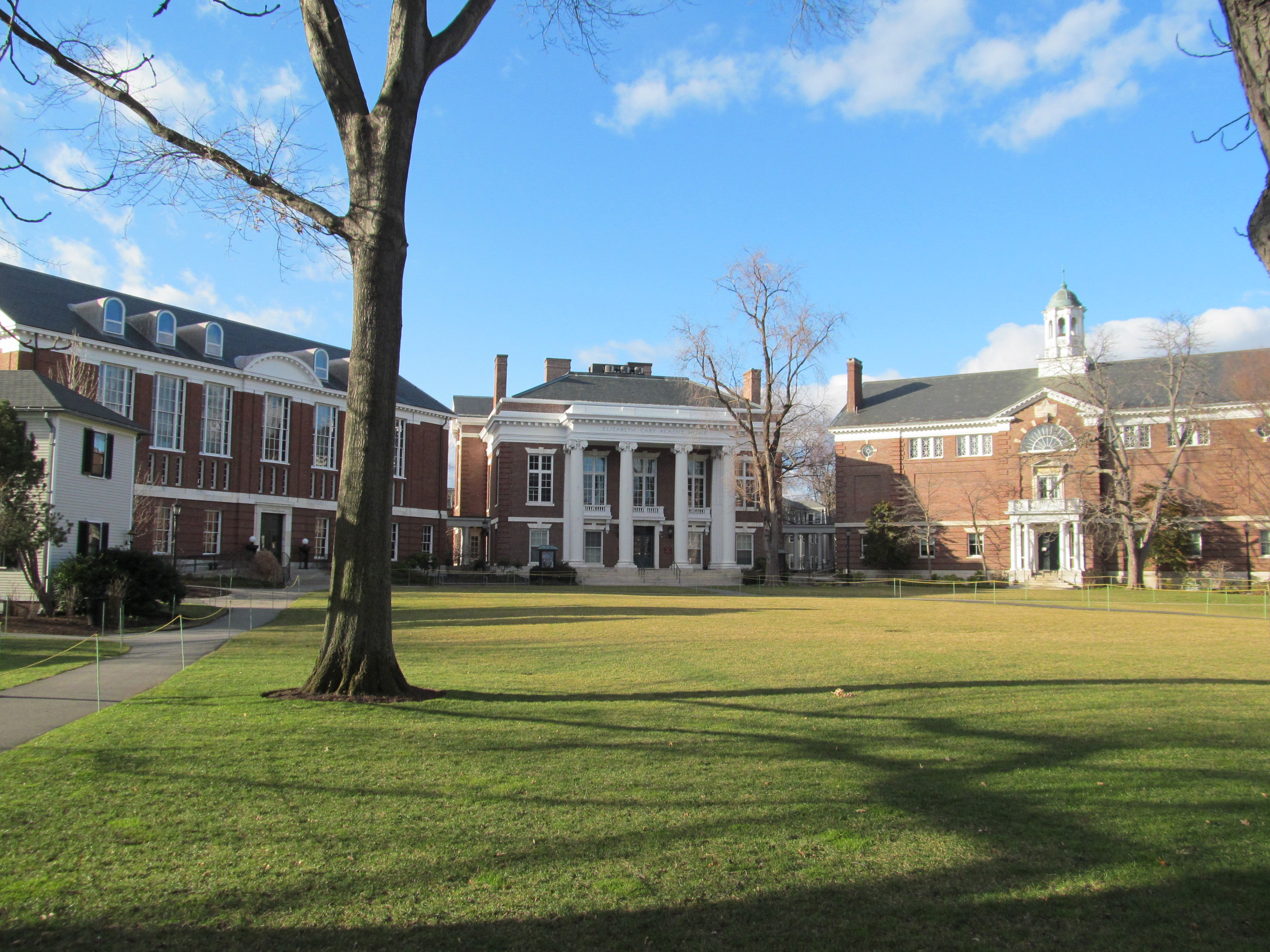 Radcliffe Yard, Cambridge Massachusetts